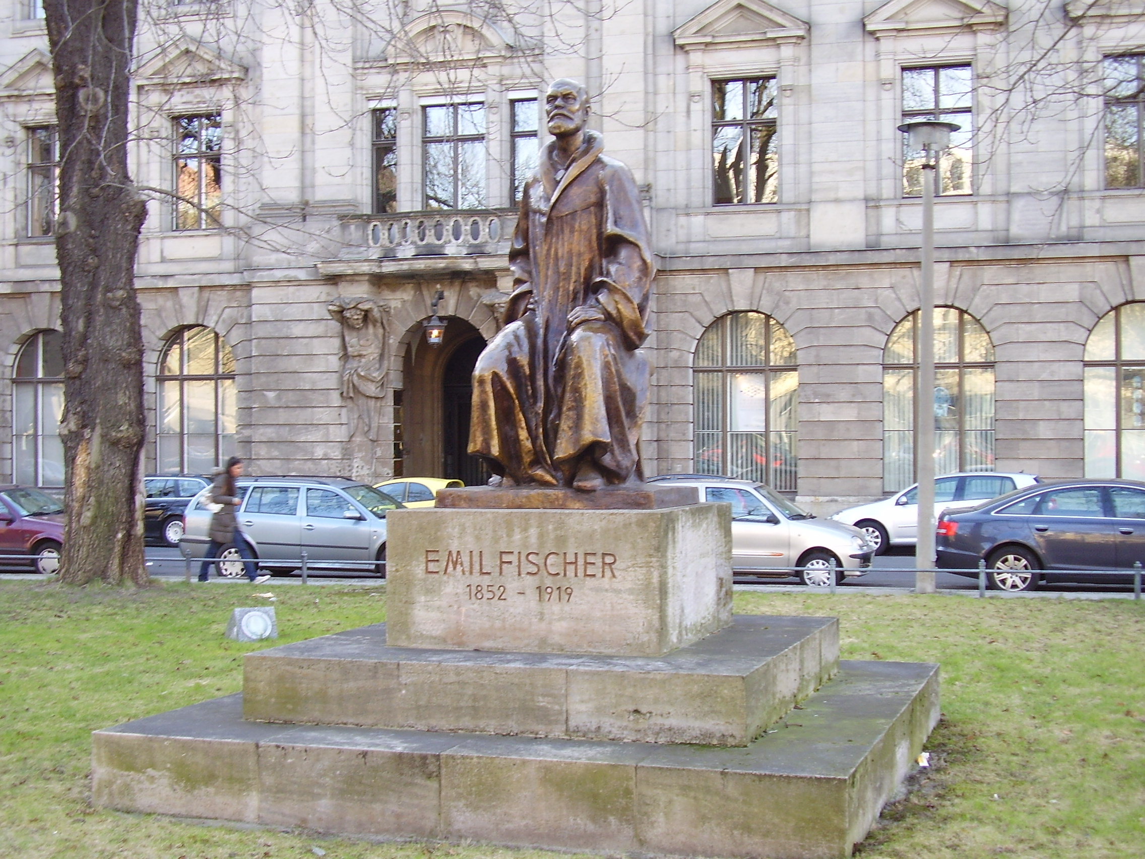 Berlin, Medical University, Hospital, Charité Campus Mitte (CCM)